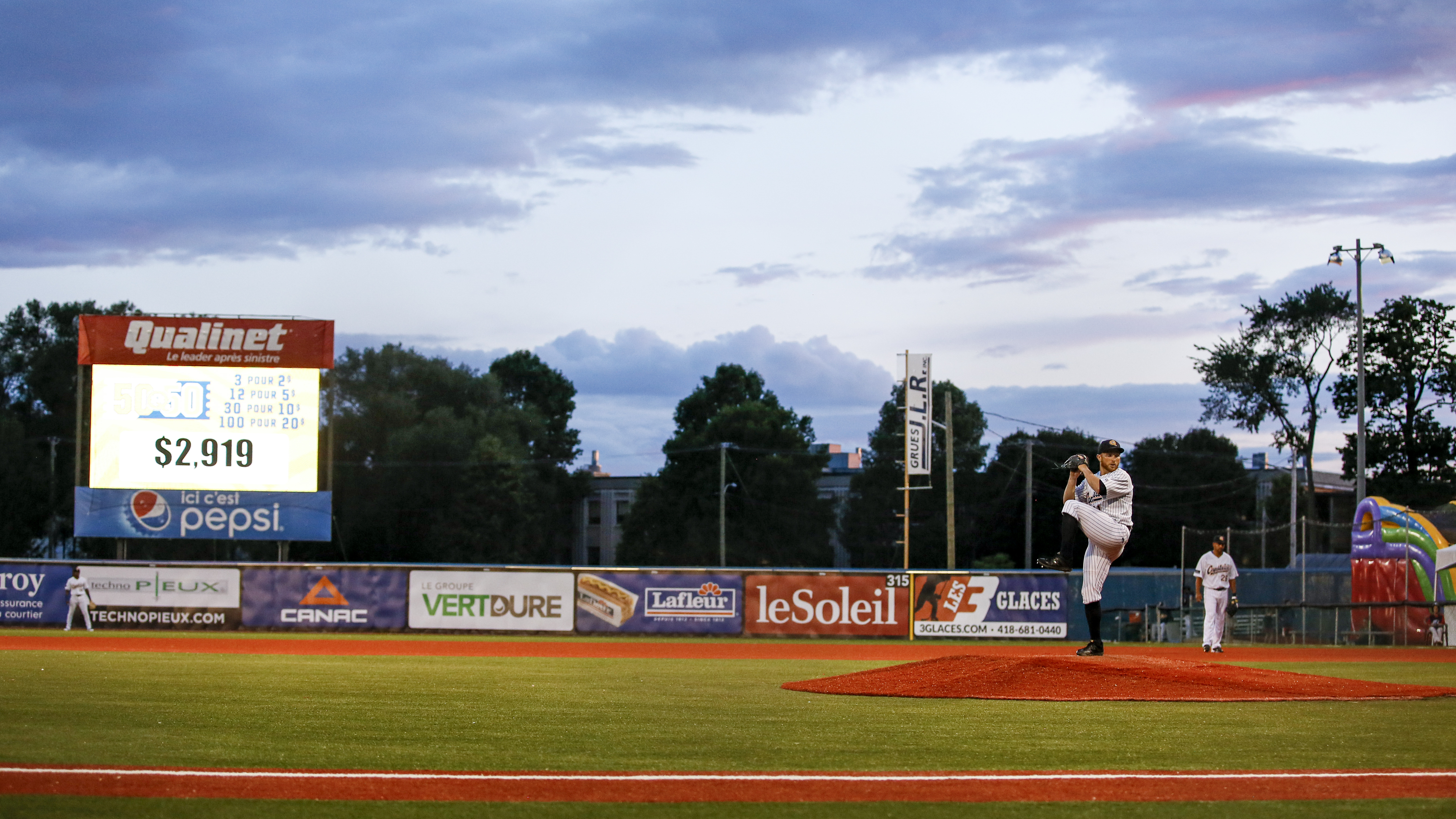 What an amazing game last night as the Capitales de Québec took on the Les Aigles de Trois-Rivières and dominated! My first Capitales game was one for the books. Thanks to everyone for the warm welcome, and support for our Conservative candidates Bianca Boutin, François Corriveau and Marie-Josée Guérette and our MP’s Pierre Paul-Hus, Steven Blaney, Joël Godin, Gérard Deltell, Alupa Clarke and Jacques Gourde.